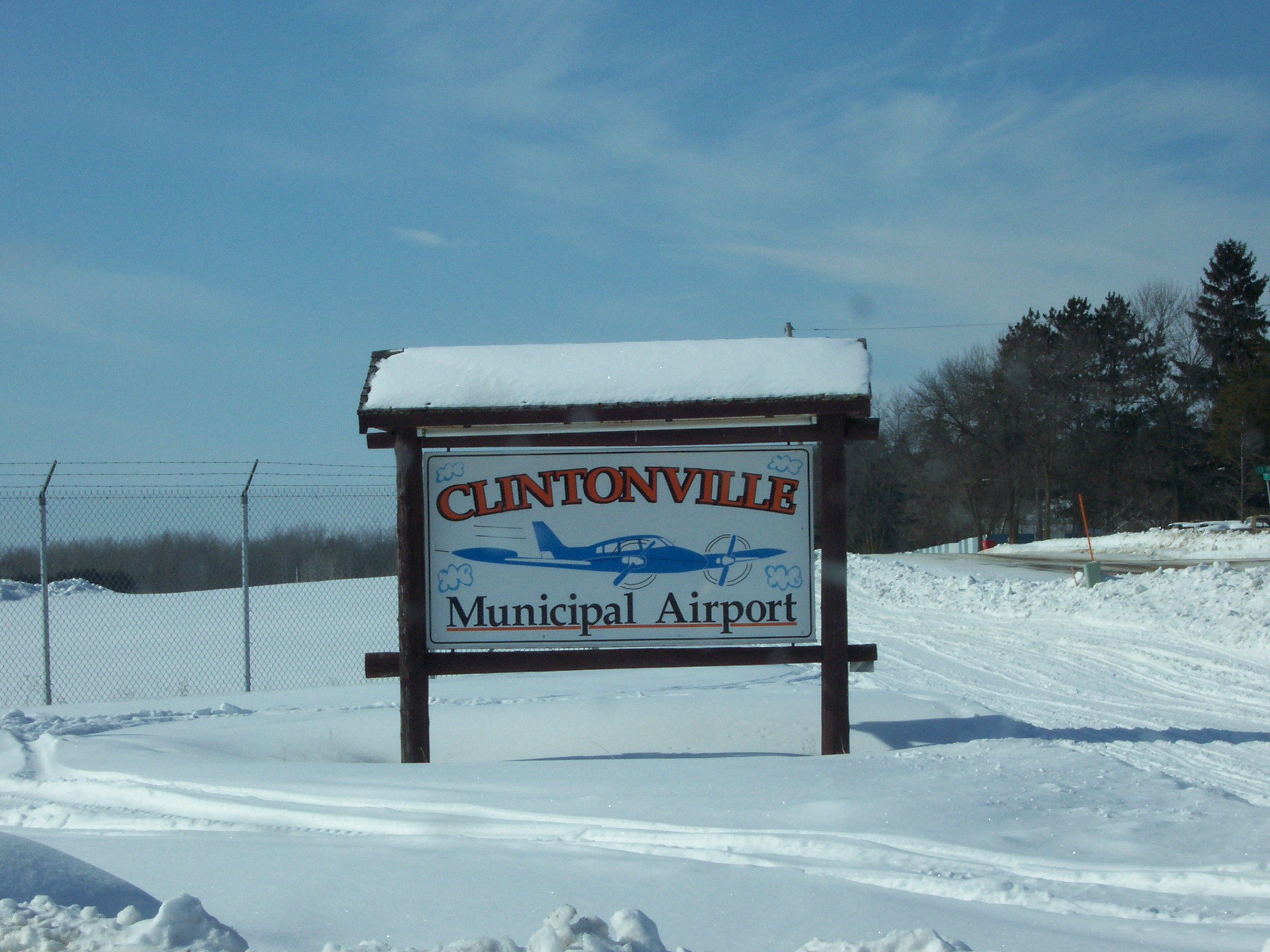 The sign for the Clintonville Municipal Airport east of Clintonville, Wisconsin, USA.